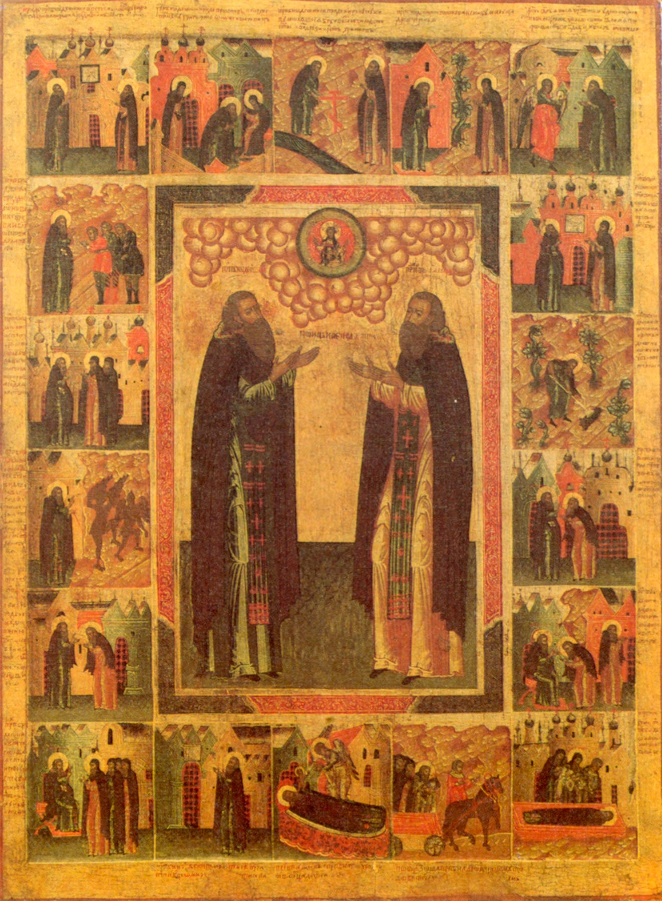 Dionisius and Amphilochius of_Glushitsa, 17 century Vologda icon